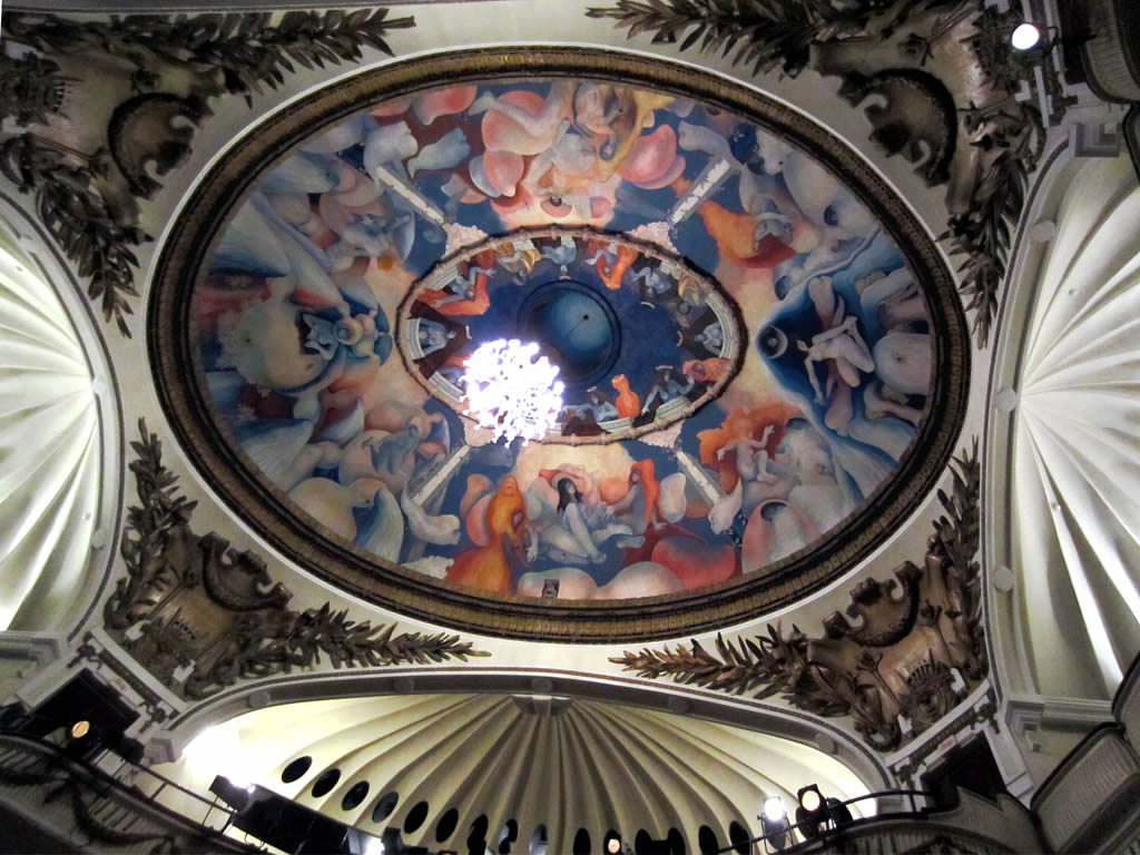 The central dome over the National Theater (1917) on Parque Morazan, San Salvador, El Salvador.